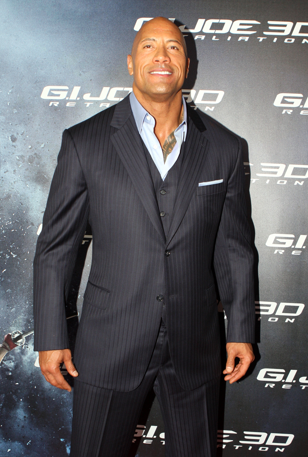 G.I. JOE: RETALIATION - Red carpet movie premiere tonight, Event Cinemas, Sydney, Australia - 14th March 2013.